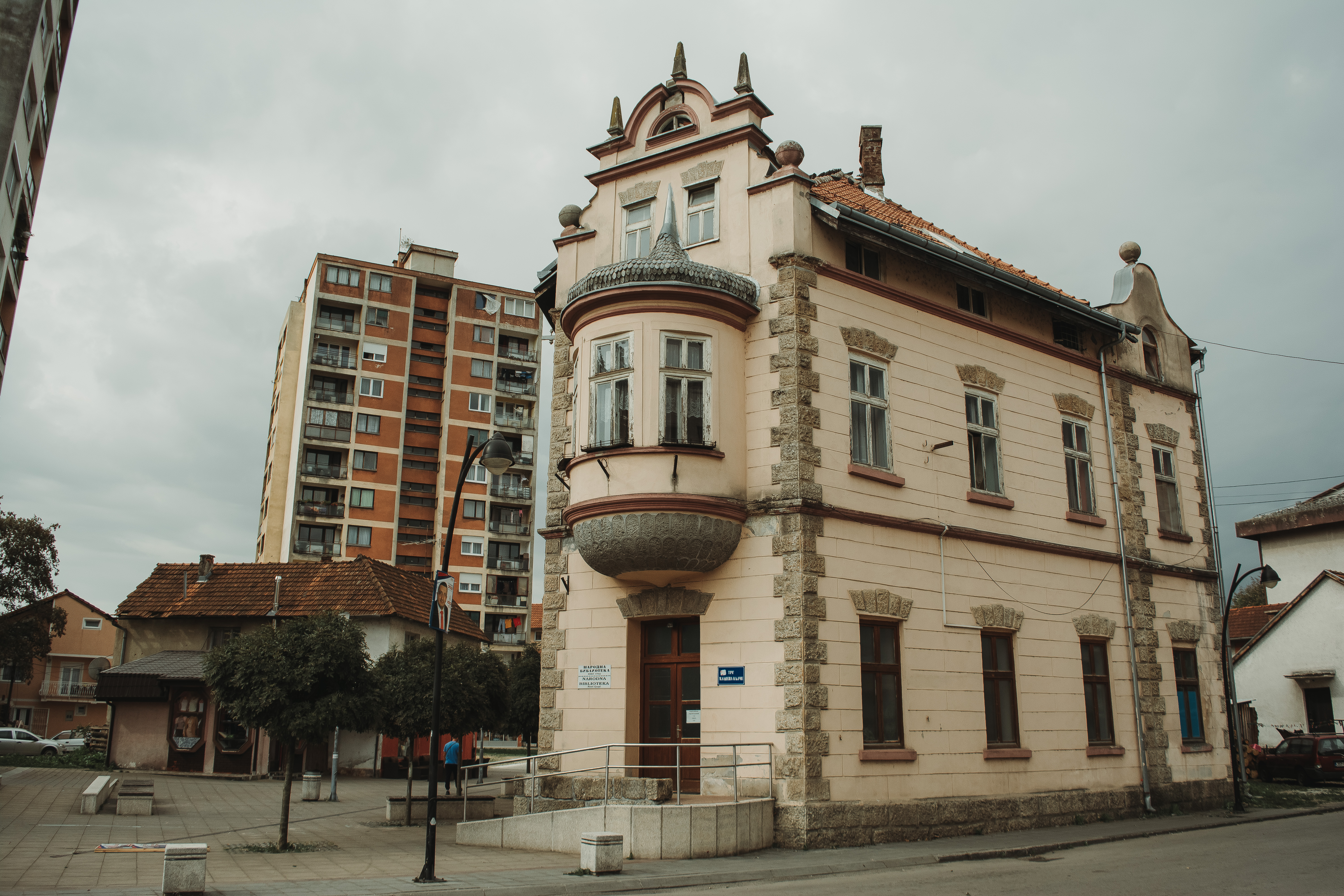 Library in Novi Grad. This image was uploaded as part of Trace of Soul 2018.